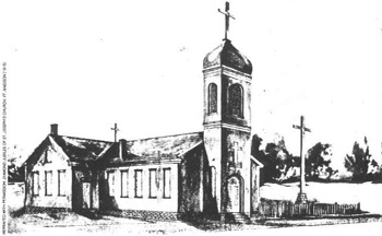 The second St. Joseph's Catholic Church built in Fort Madison, Iowa in 1847 under the direction of the Rev. John G. Alleman.